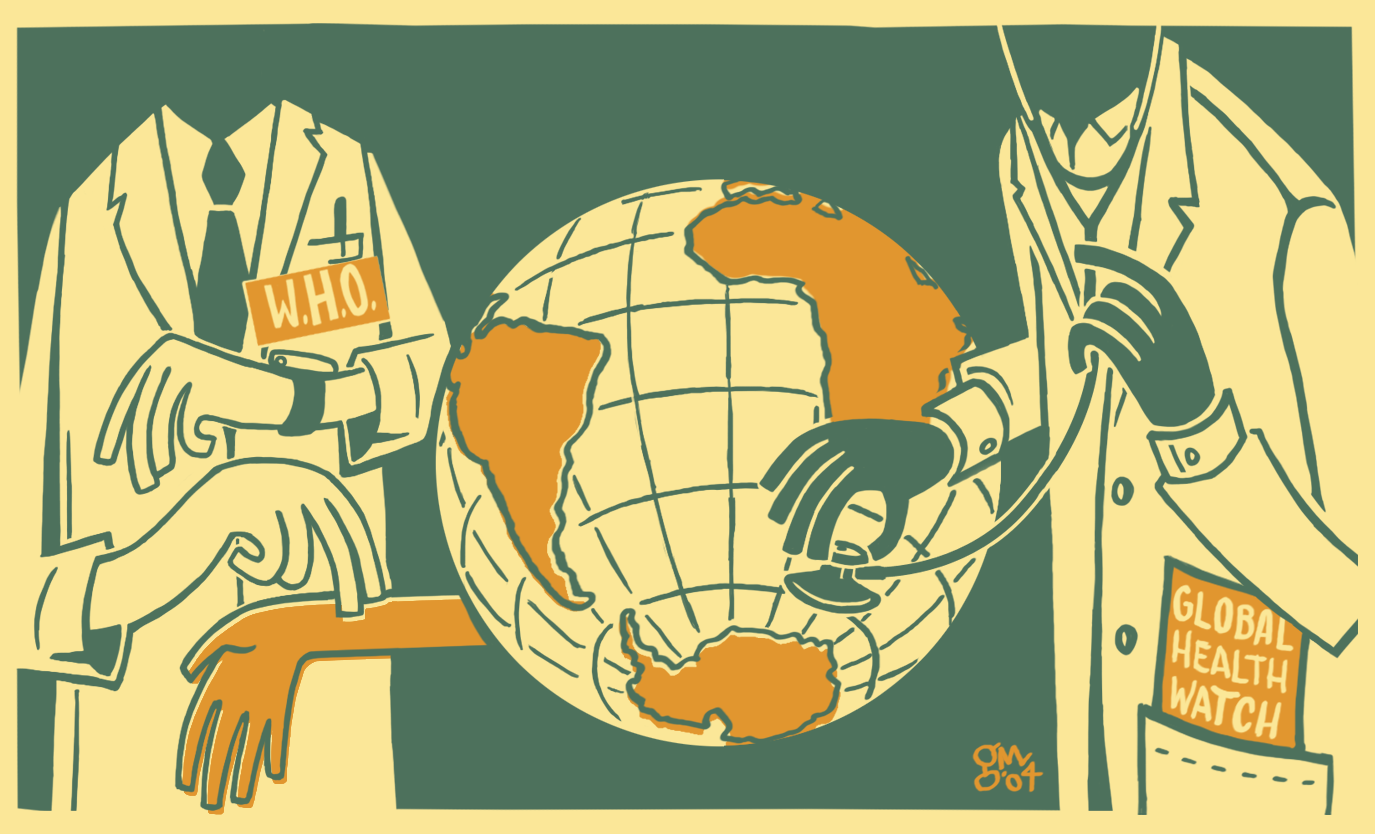 Public health in governmental and non-governmental perception.